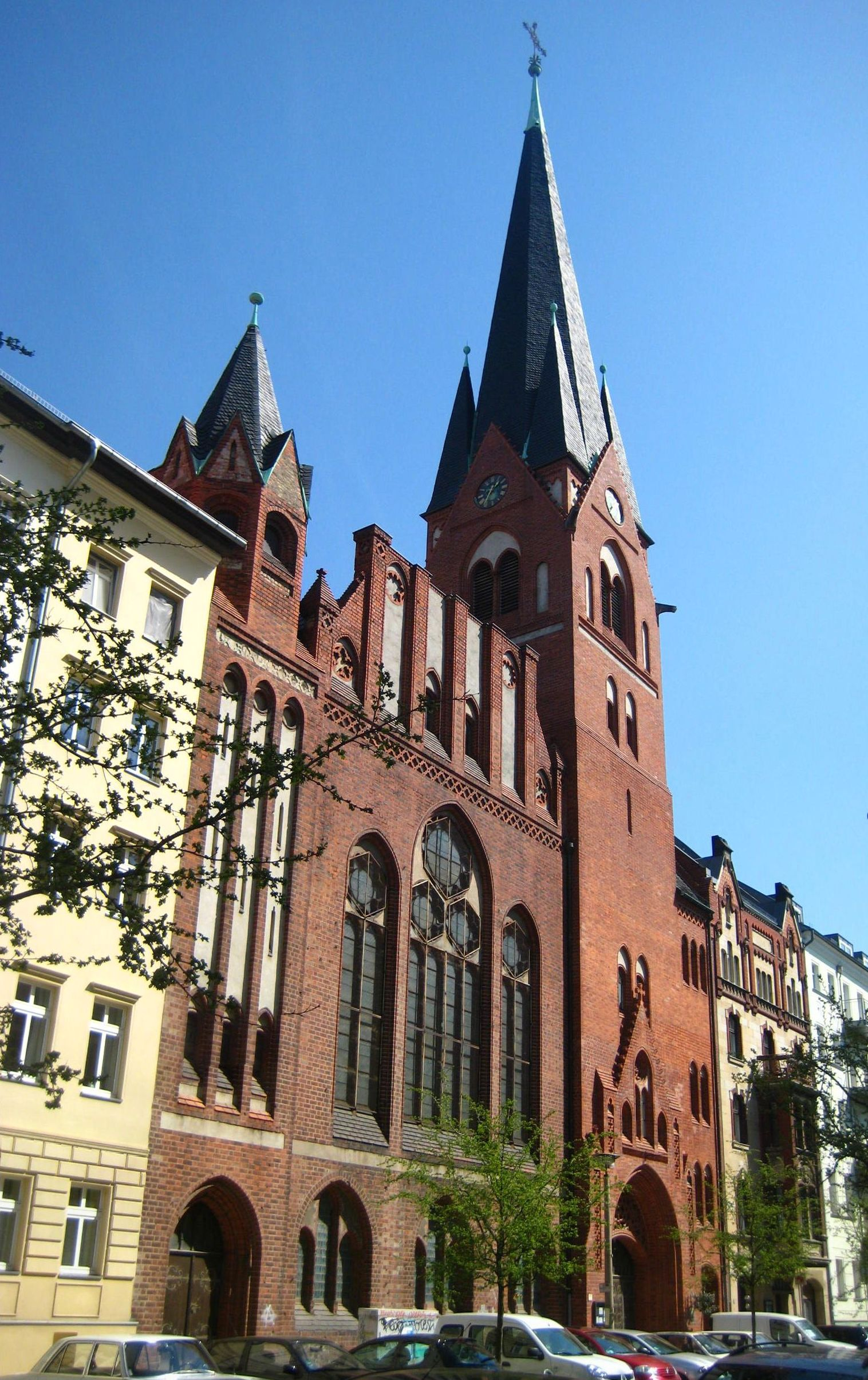 The Golgatha Church at Borsigstraße No. 6 in Berlin-Mitte. The church was built from 1898 to 1900 to designs by Max Spitta and Karl Wilde in brick gothic style of Northern Germany. The church has been designated as a historic landmark.